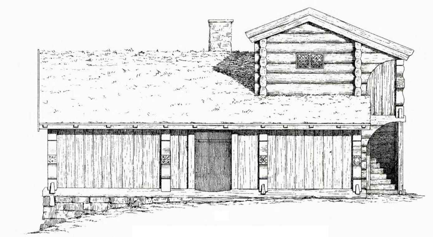 Lithograph of Lykrestua in Skjåk, Norway, in 1860 (now at Maihaugen museum, Lillehammer, Norway). Lithography: "M. Lyngs lith. Anstalt, Christiania". Based on drawing by Chr. Christie.